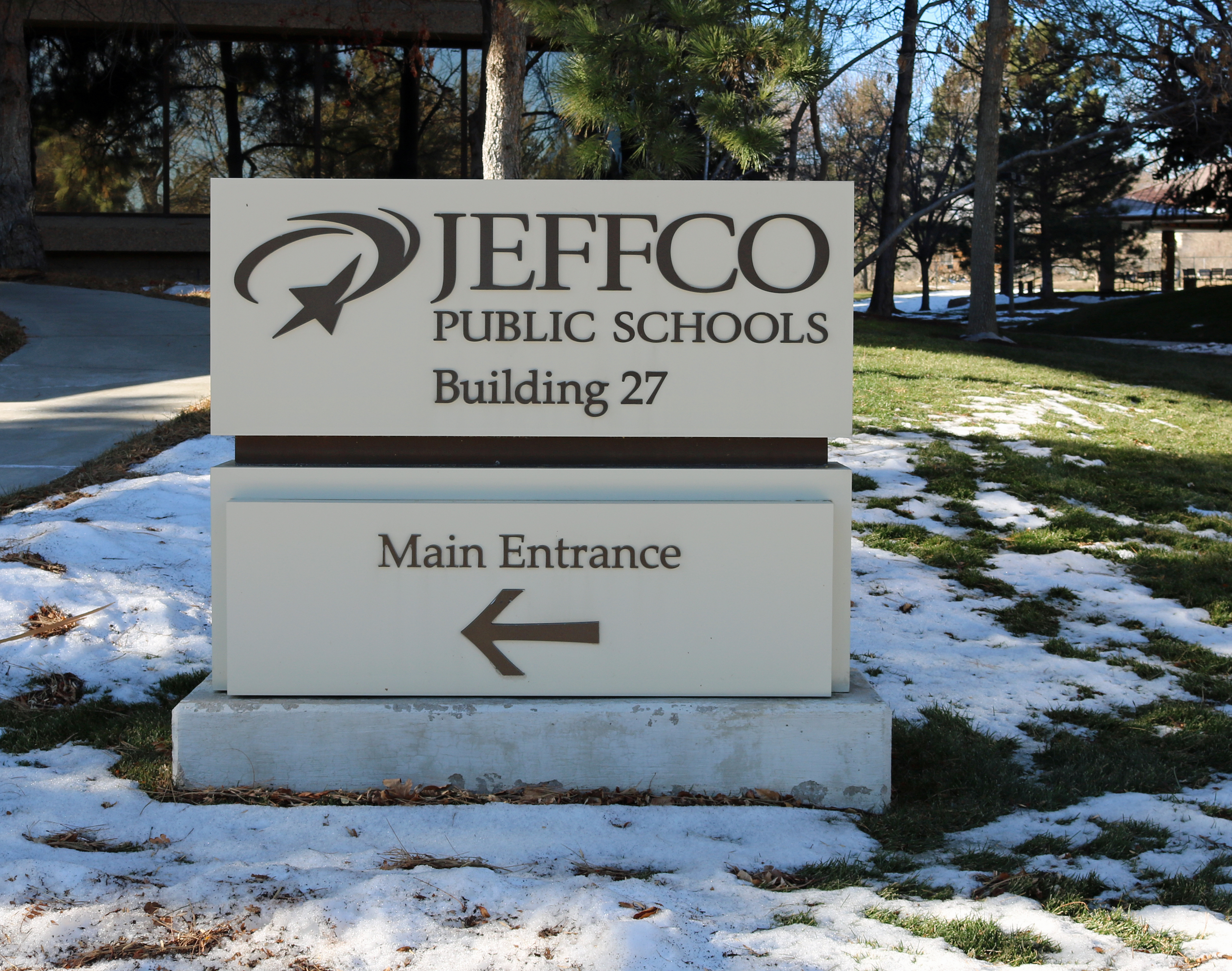 The sign in front of the headquarters of Jeffco Public Schools (Jefferson County Public Schools), located at 1829 Denver West Drive #27 in Golden, Colorado.